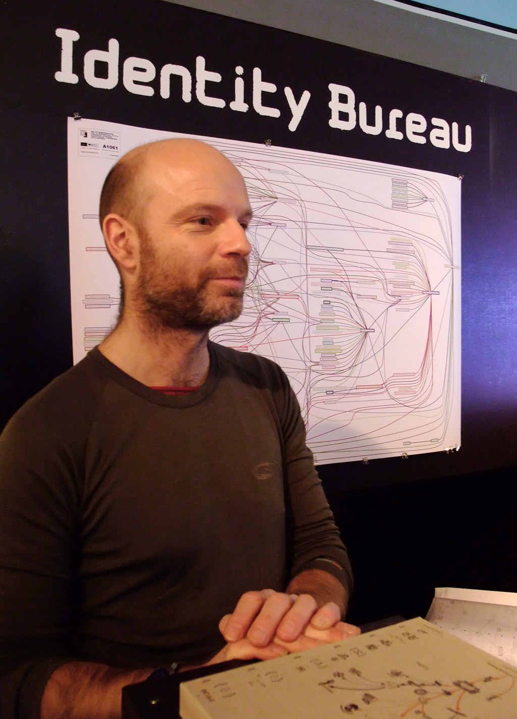 Heath Bunting presenting his work at Transmediale 2011, Berlin, Germany.